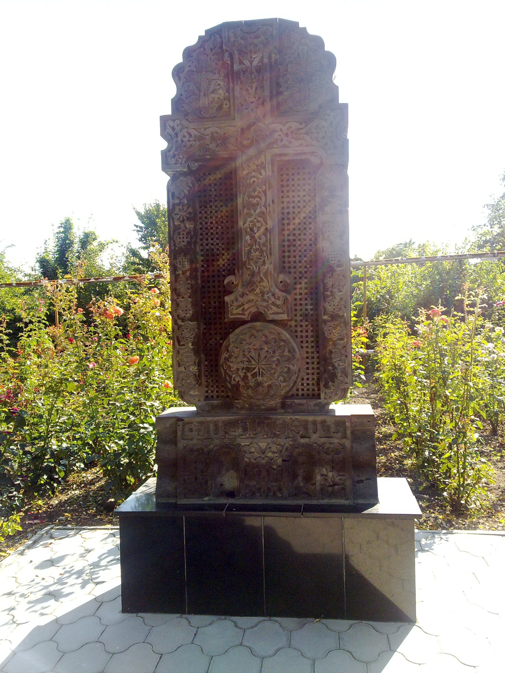 Khachkar "Papazyan" in garden of Armenian church of Saint Sargis in Slavyansk-na-Kubani (Russia). Хачкар "Папазян" во дворе армянской церкови Святого Сергия (Саргиса) в городе Слаянск-на-Кубани (Россия).